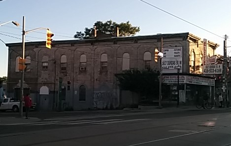 The former Brockton town hall at the corner of Brock and Dundas, Toronto.